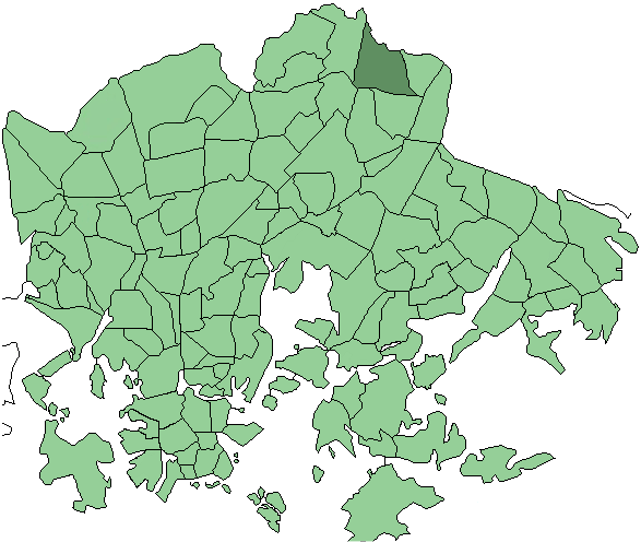 Districts of Helsinki, Puistola highlighted